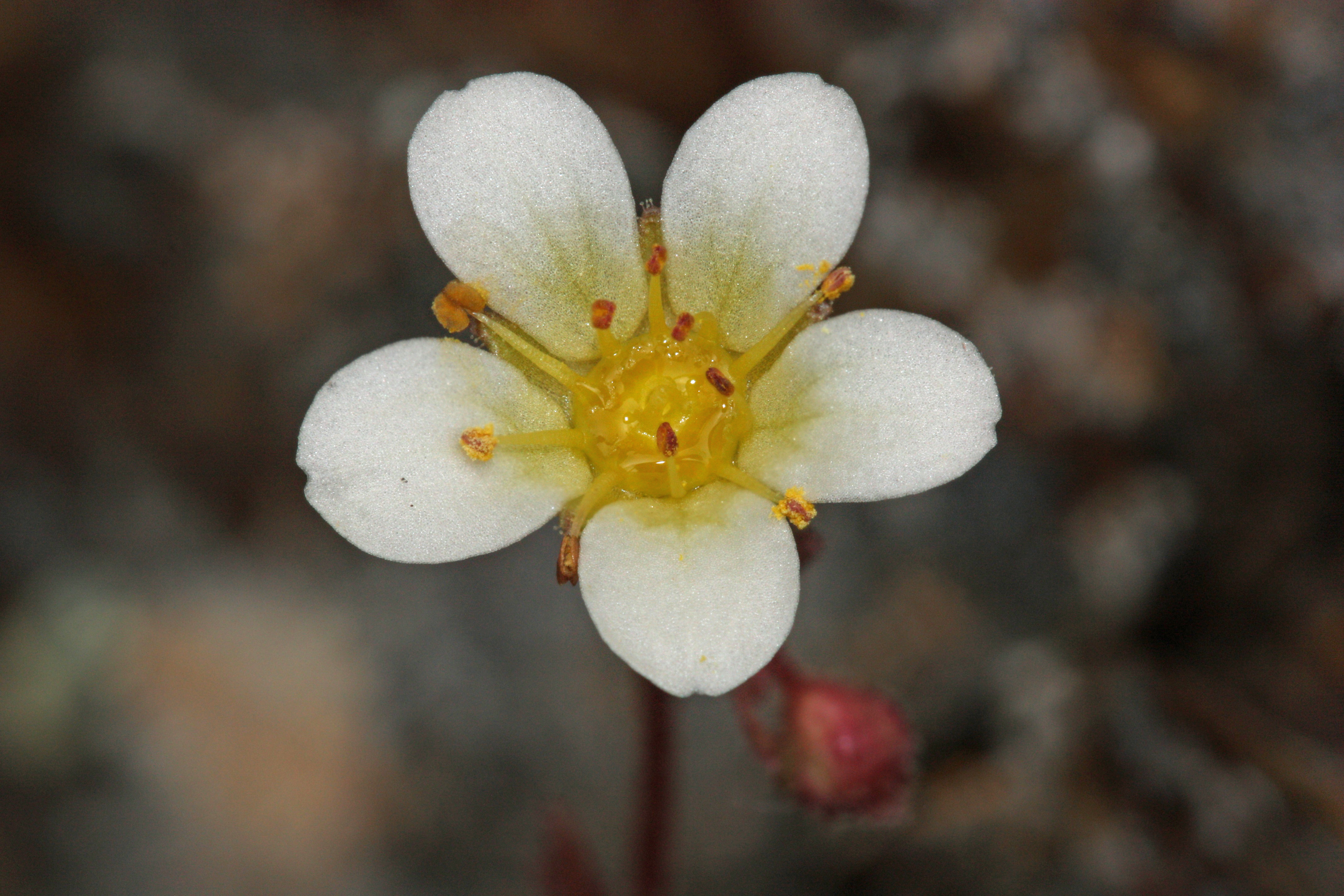 Tufted Alpine Saxifrage Focus stacking (using Helicon Focus).Please see "Other versions" for source images. Viewpoint location: Blue Mountain (6000+ feet, 1829+ m), north ridge, Olympic National Park Viewpoint elevation: 1748 meter (5733 ft) Location source: Garmin GPSmap 60CSx Location Datum: WGS84